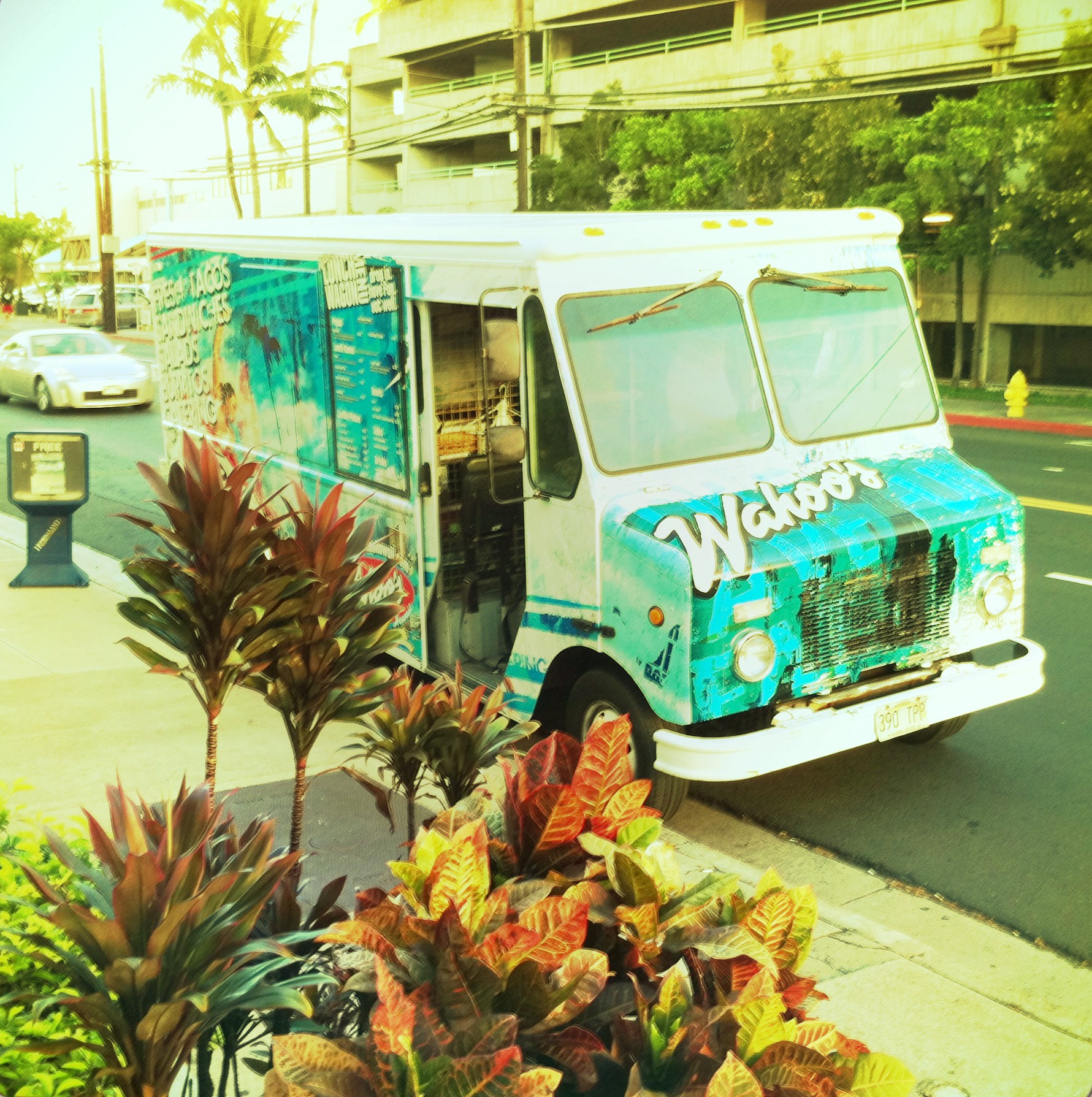 Wahoos Lunch Van - delivery in Honolulu, Hawaii